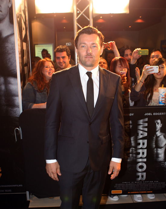 Joel Edgerton at Warrior Sydney Premiere